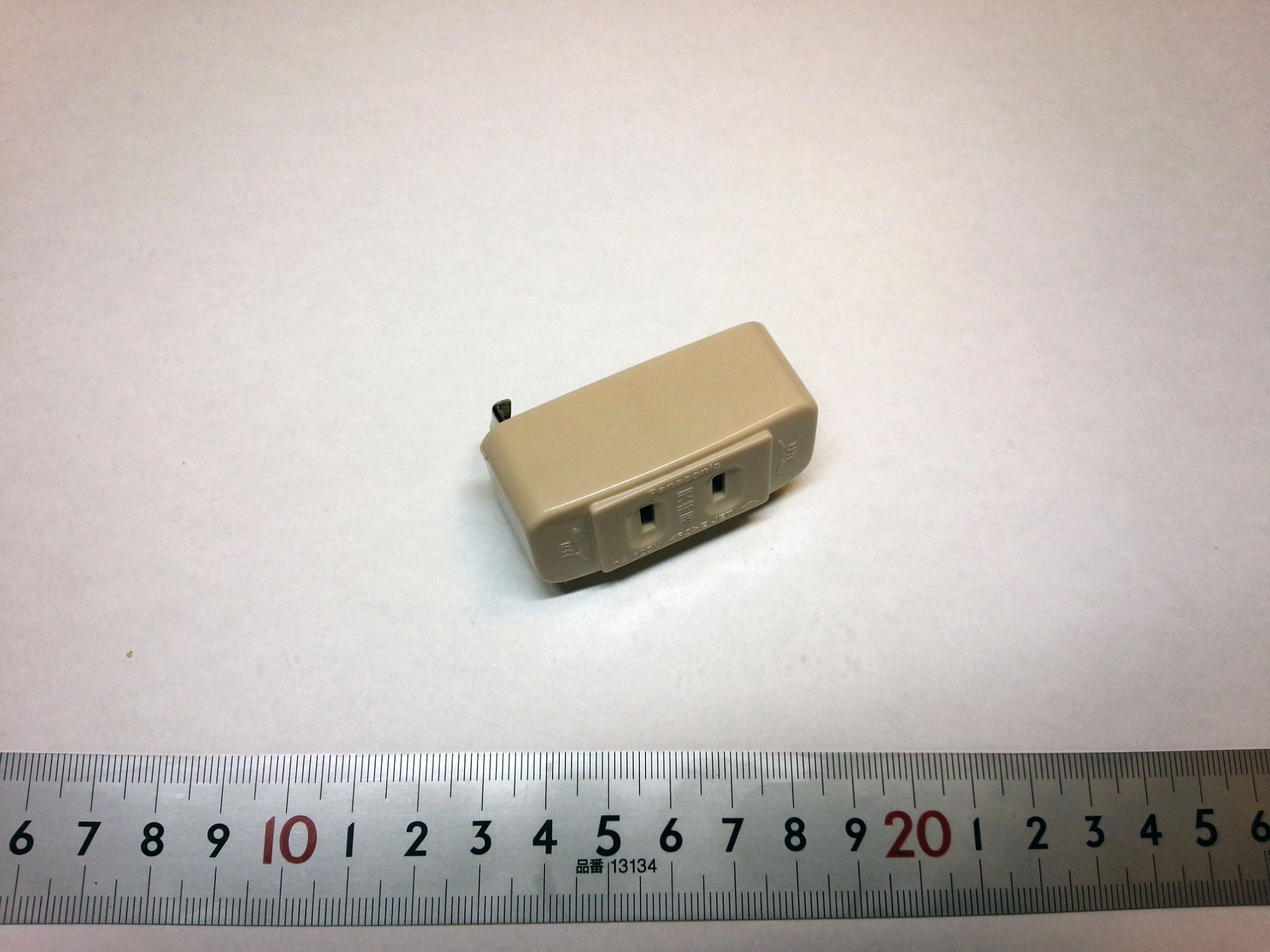 Japanese Ceiling Rosette Adapter